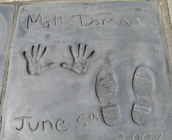 Matt Damon handprints in front of the Mann's Chinese Theater, Los Angeles